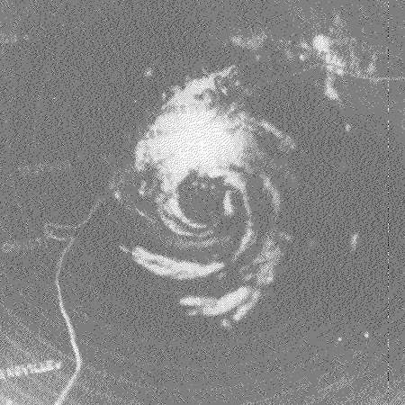 A radar image of Hurricane Debra approaching the Texas coast at 0733 CST on July 24, 1959.